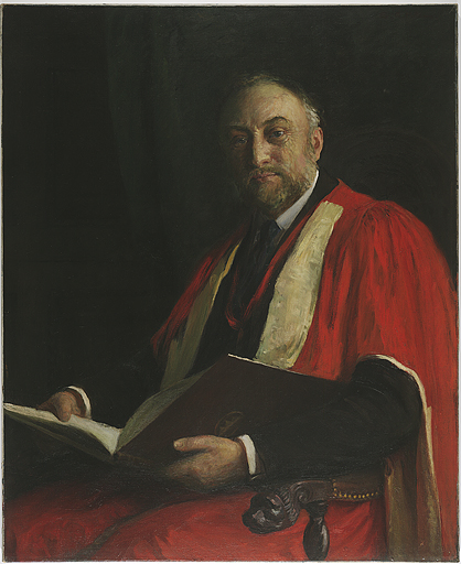 Portrait of astronomer Edward Charles Pickering (1846-1919). Courtesy of the Harvard University Portrait Collection, Harvard University, Cambridge, Mass.